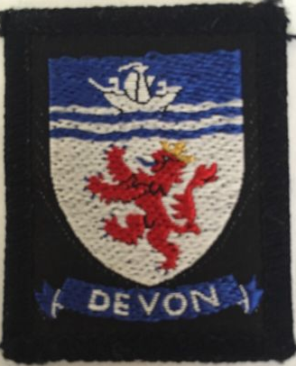 The badge of Devon County Scout Council, the Scout Association of the United Kingdom.